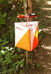 Control Point